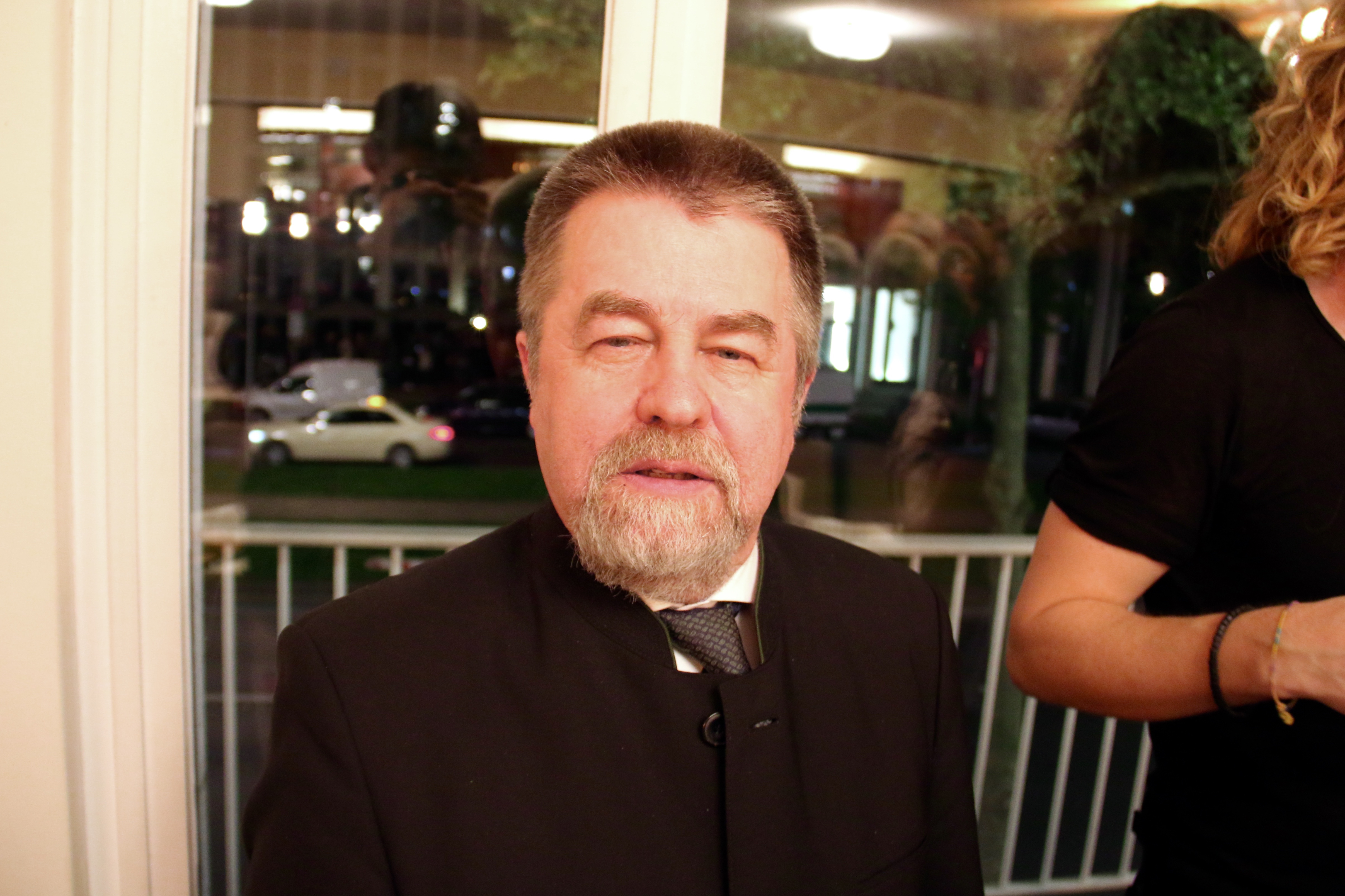 The scottish lightdesigner Davy Cunningham at the launching party of Don Pasquale in Düsseldorf, Germany (2017).